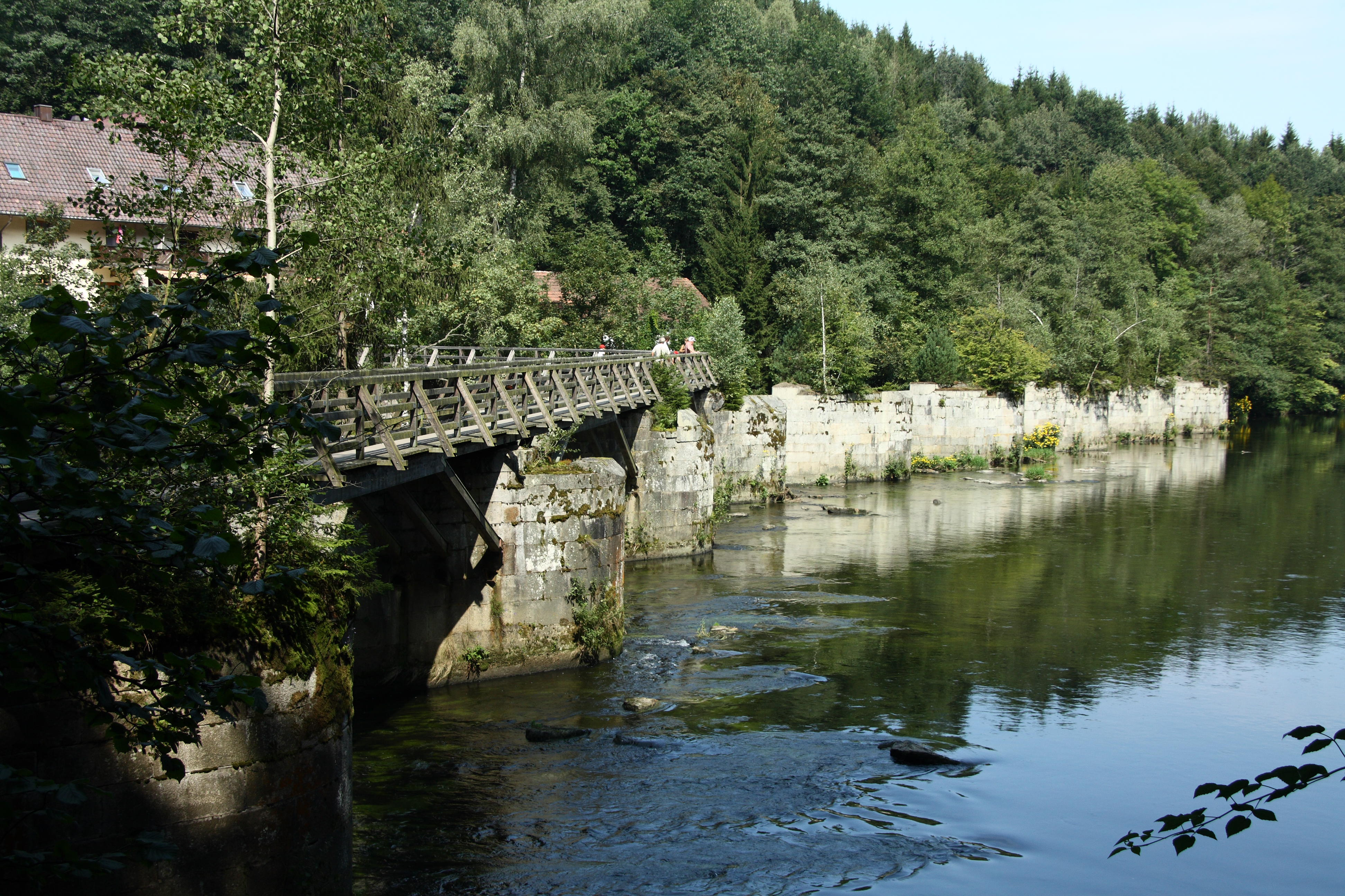 The weir for timber floating at the river Ilz at Hals near Passau